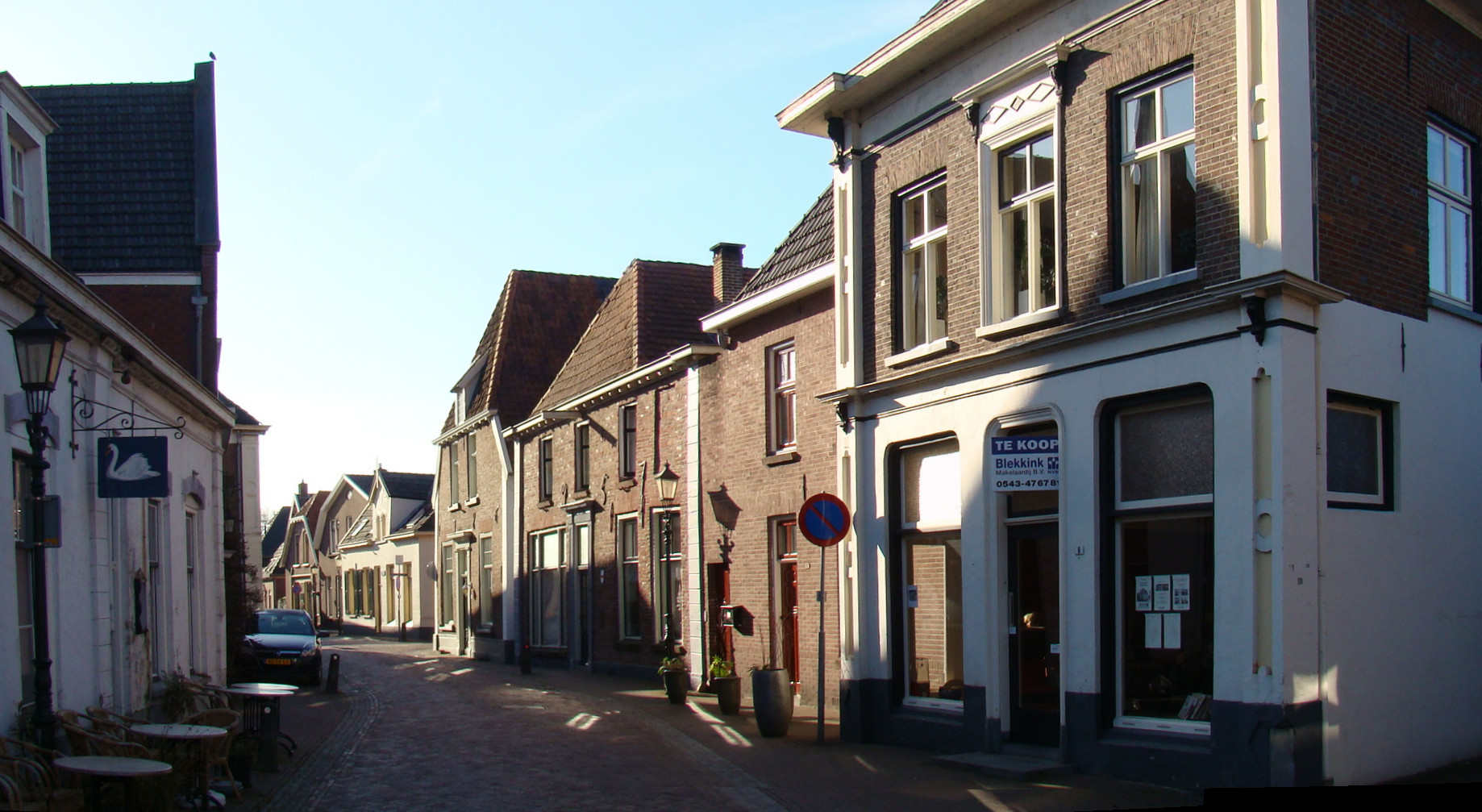 Landstraat (landstreet) Bredevoort This is an image of a municipal monument in Aalten with number wiki7126AT4